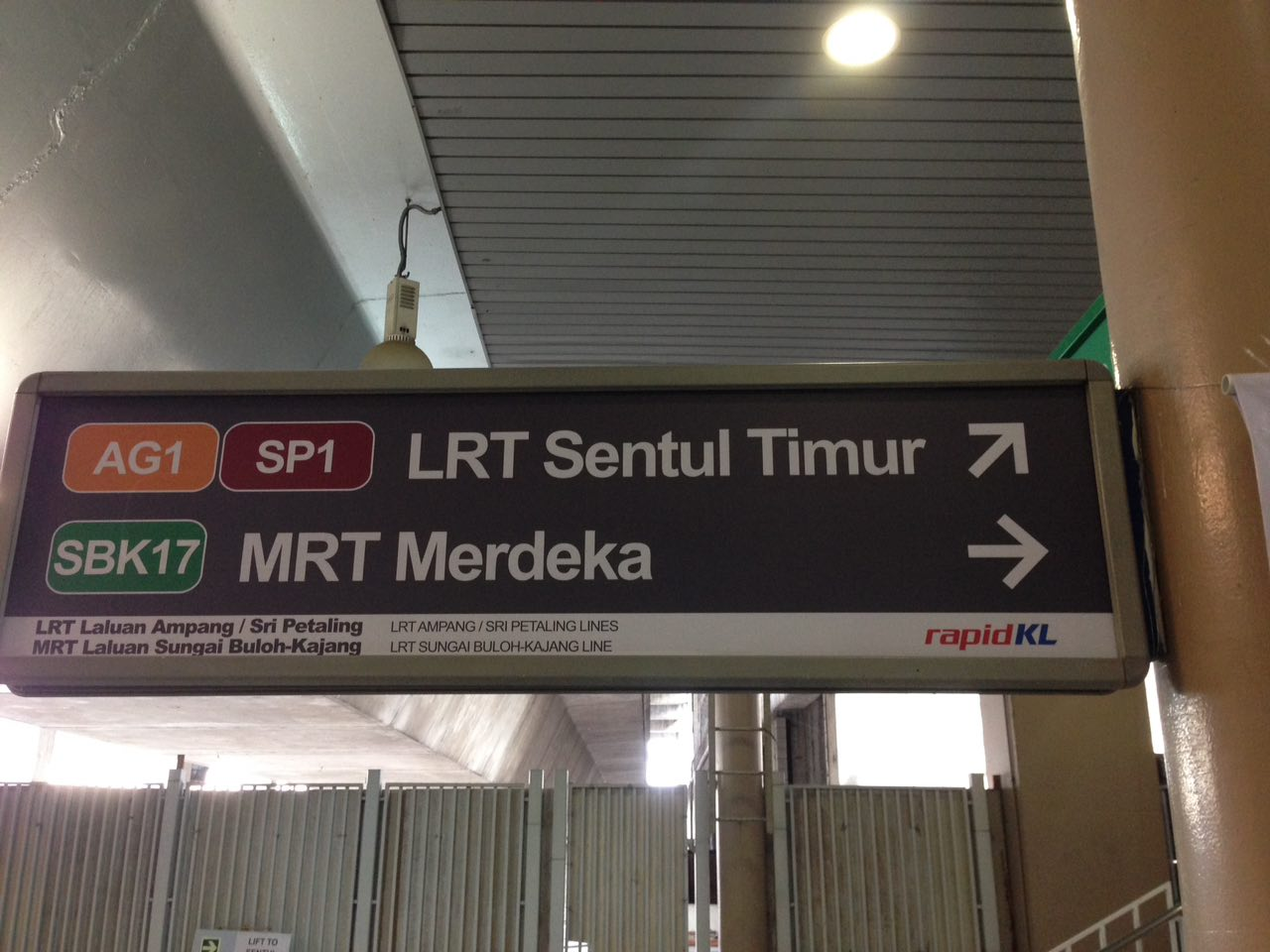 Station signage at Plaza Rakyat